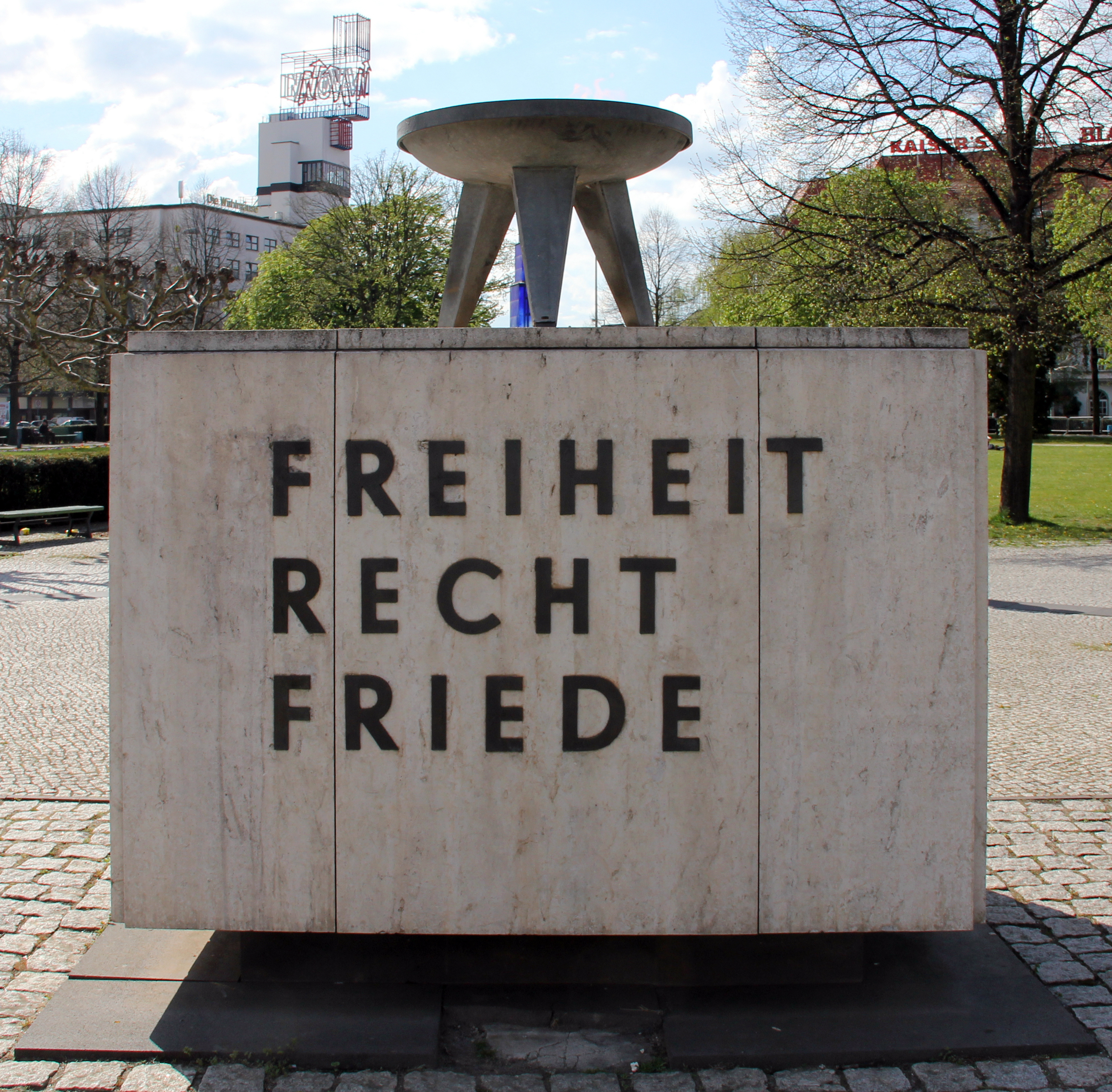 Memorial, Ewige Flamme, 1955, Theodor-Heuss-Platz, Berlin-Westend, Germany